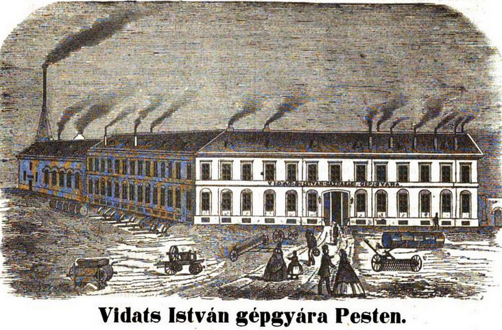 Machine factory of Vidats István